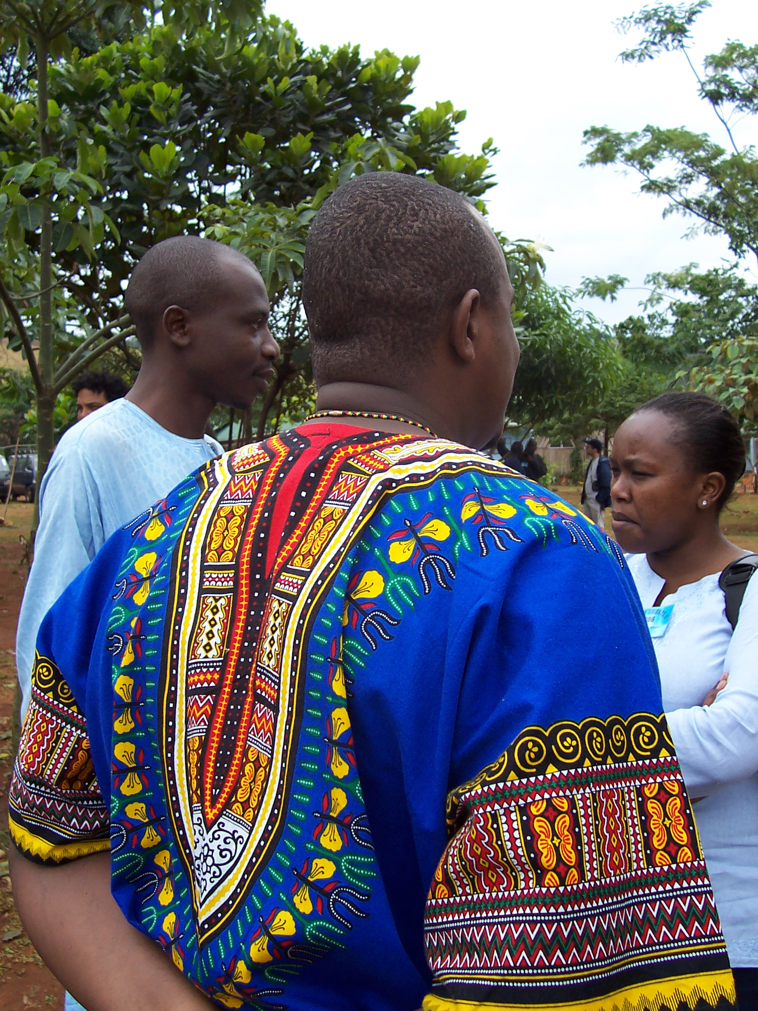 Participants at the Africa Source 2 meet, Kalangala Island (Uganda)